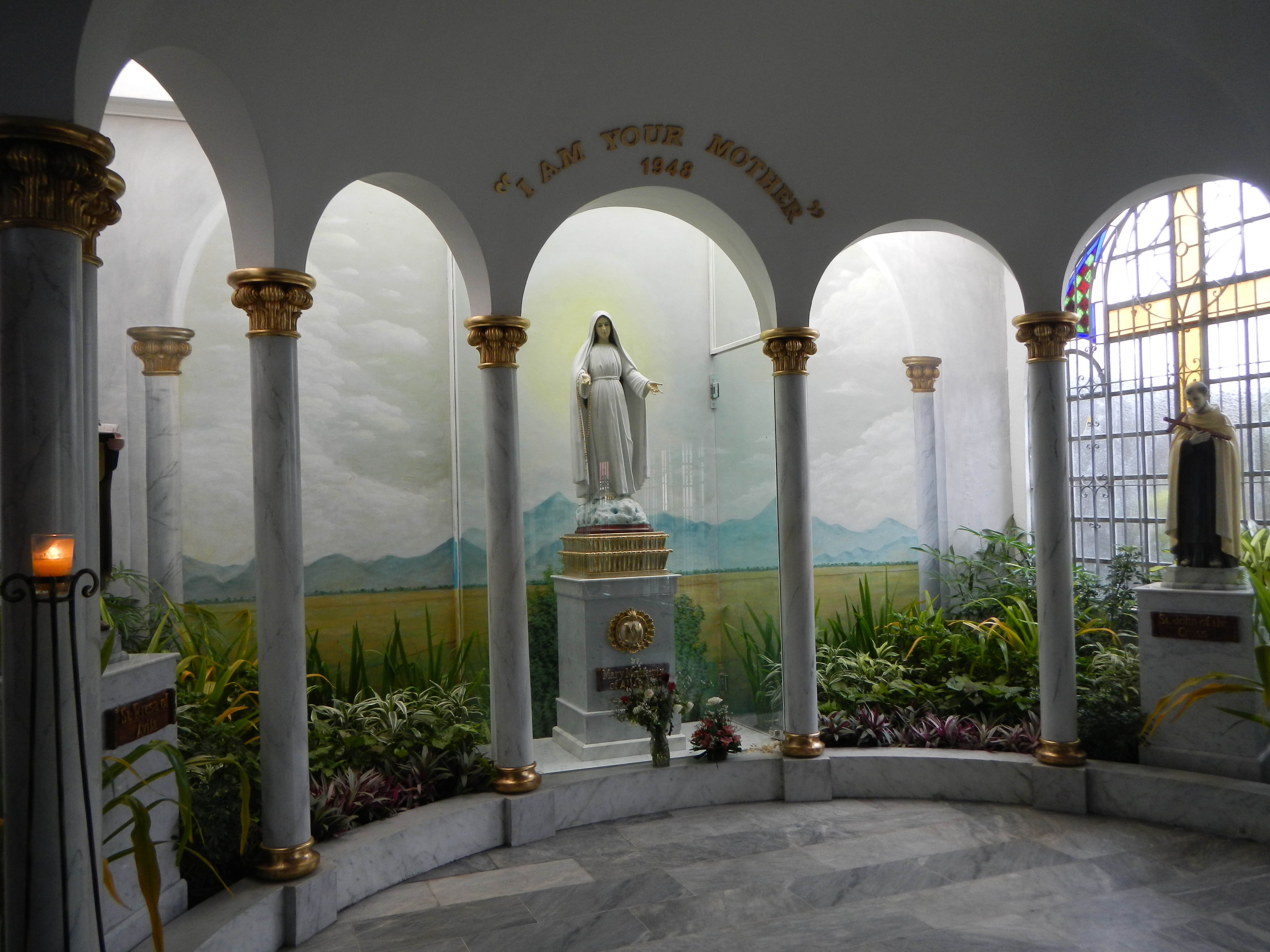 Our Lady Mediatrix of All Graces [1] Our Lady of Mediatrix of All Graces (Spanish: Nuestra Senora de la Medianera de toda gracia